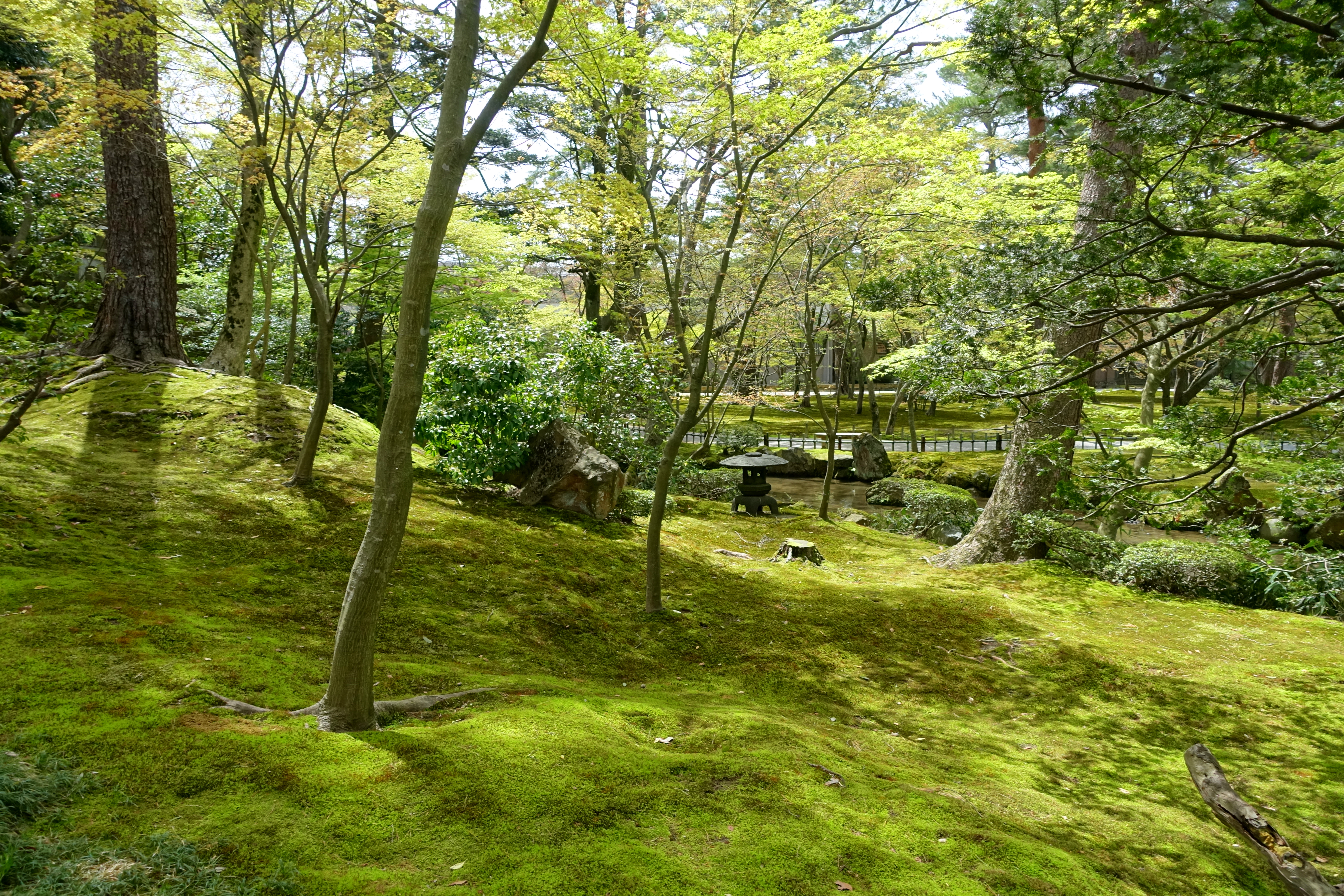 Yamazaki-yama in Kenroku-en - Kanazawa, Japan.